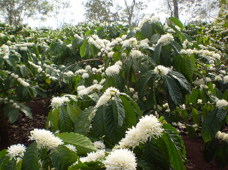 Coffee tree's flower in Dak Lak, Vietnam